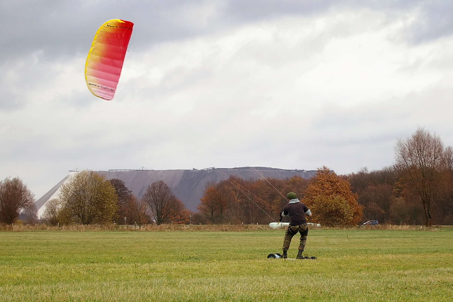 Kitelandboarding